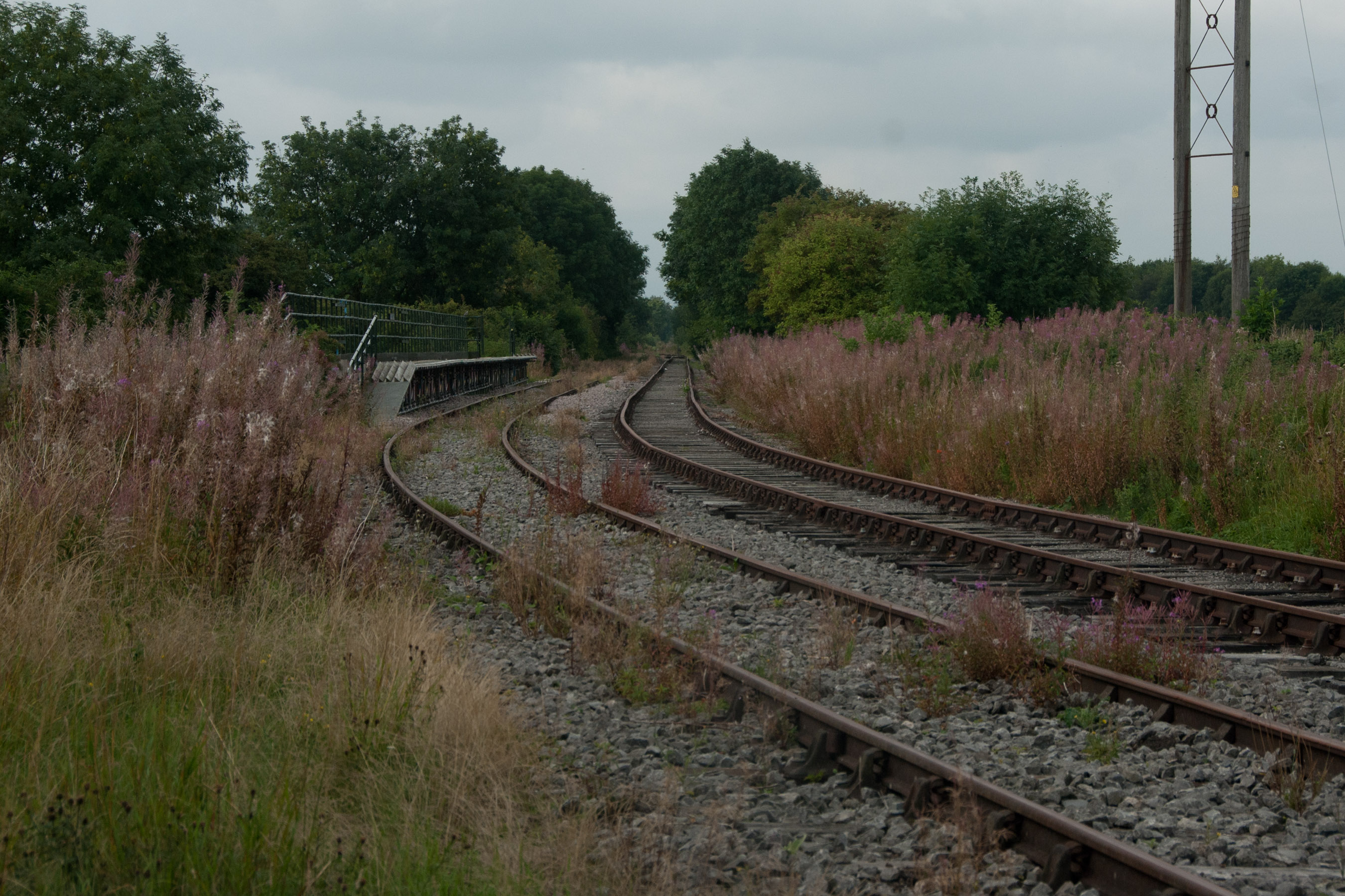 Northallerton West railway station on the loop at the western end of the Wensleydale Railway